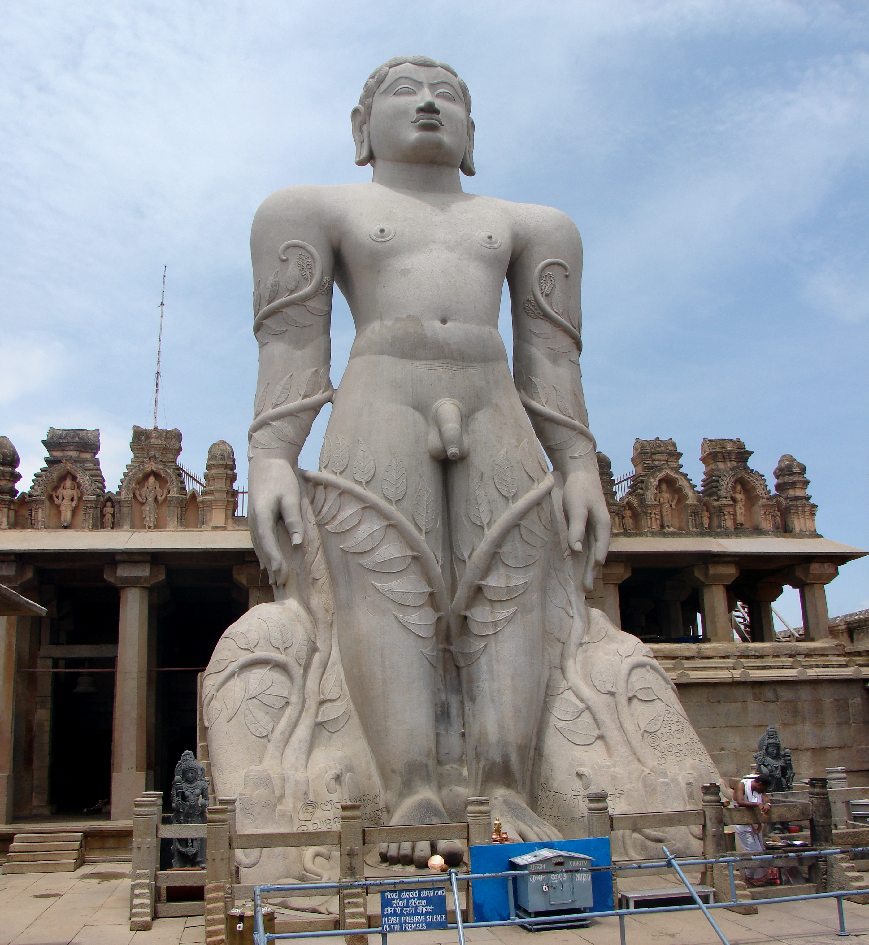 The largest monolith in the world, Gommateshwara or Bahubali in Shravanabelagola